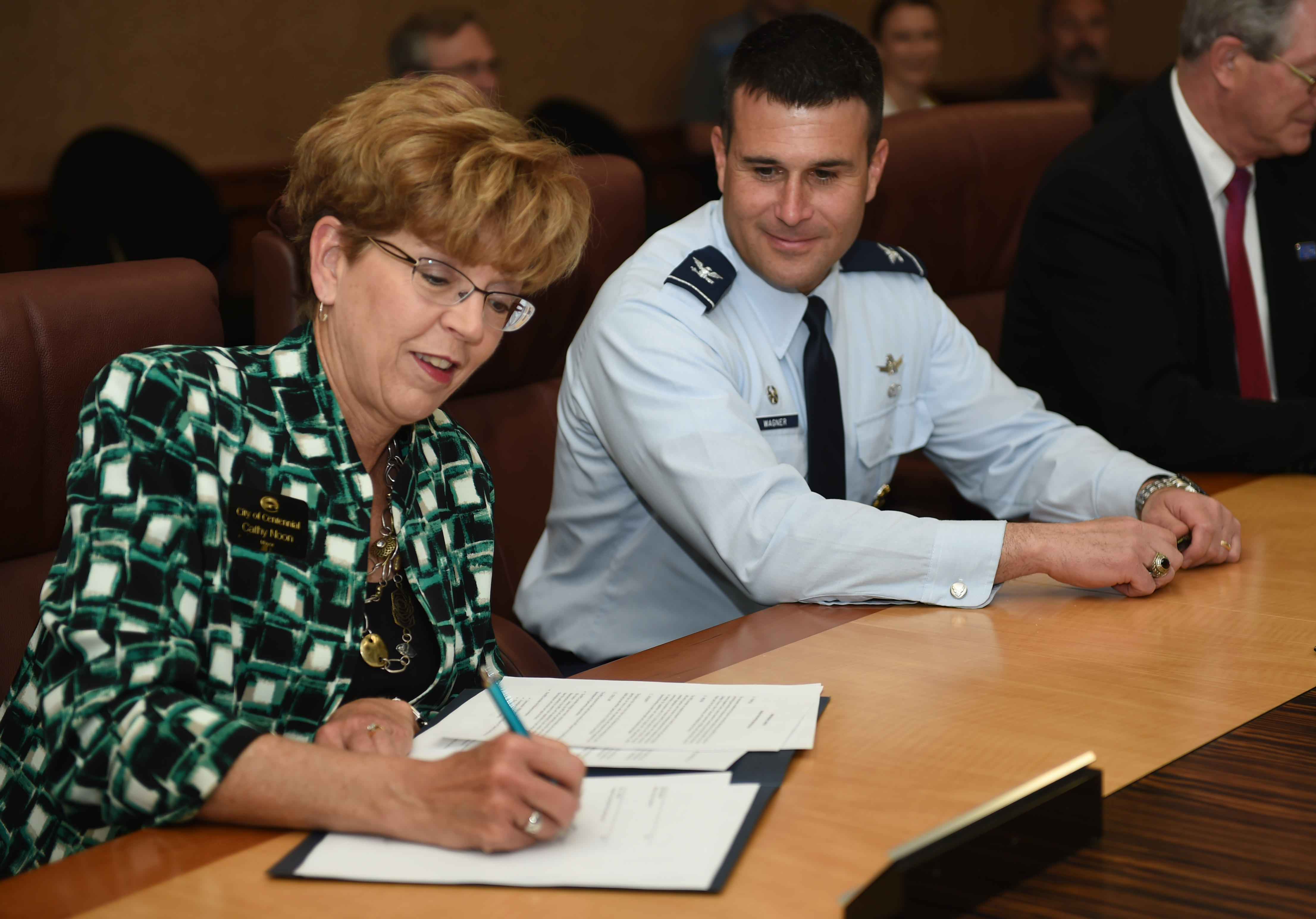 Cathy Noon, Centennial, Colorado mayor, signs the Buckley Partnership Steering Group charter March 31, 2015, at the 460th Space Wing Headquarters building on Buckley Air Force Base, Colo. The document declares partnerships and collaboration between Buckley AFB and local communities.